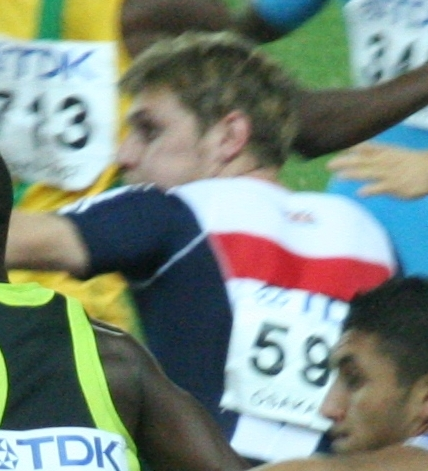 World Athletics Championships 2007 in Osaka: Richard Buck (Great Britain)